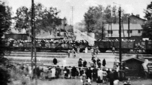 Railway siding in Pruszków. Wagons filled with Polish civilians from Warsaw expelled during the Warsaw Uprising.